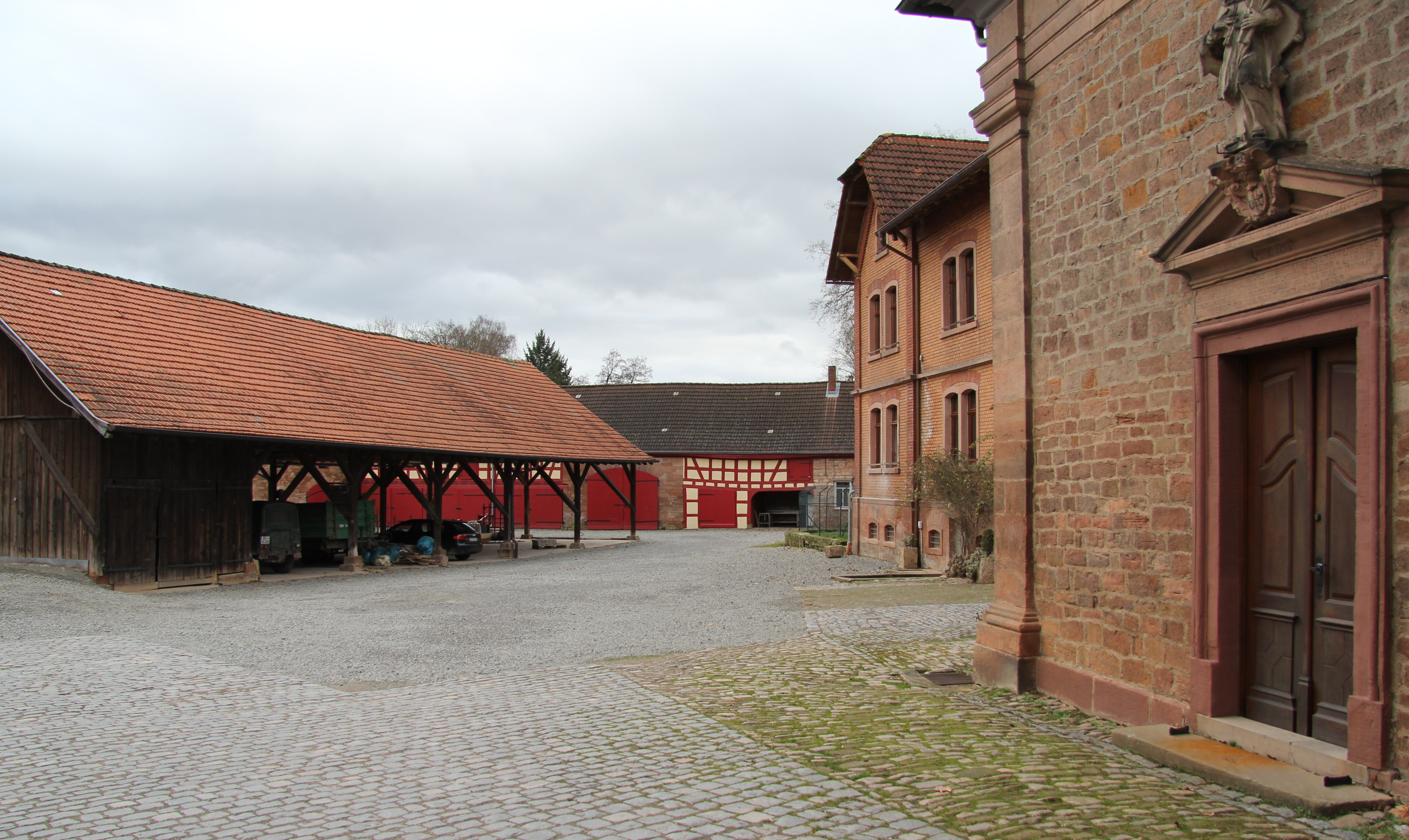 Unterbessenbach agricultural estate in Lower Franconia, Bavaria, Germany